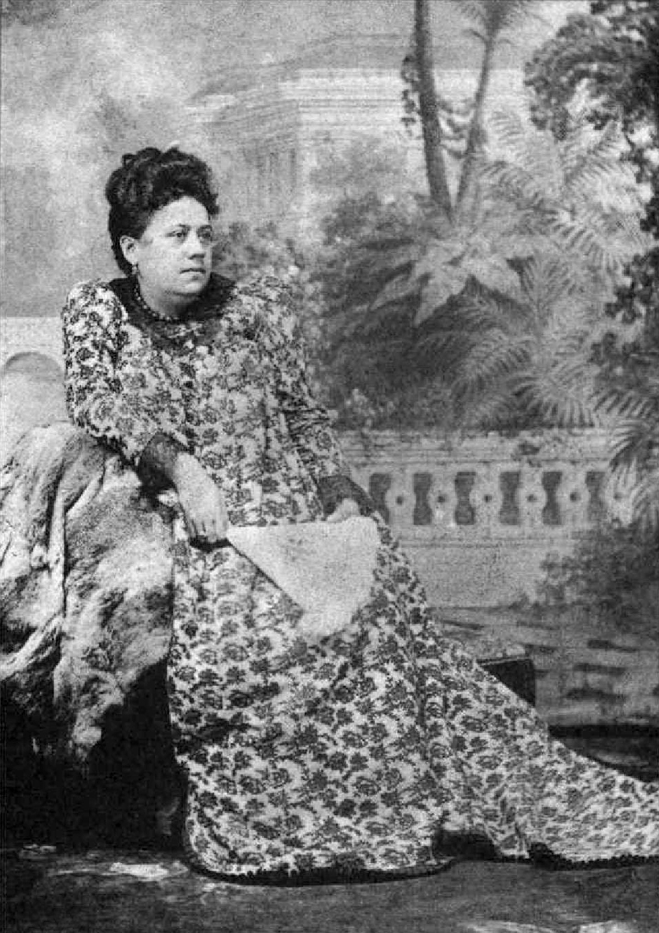 Eleanor (or Ellen) Kekoaohiwaikalani Wright Prendergast was born in Honolulu on April 12, 1865. She was educated as a Catholic at Sacred Hearts Convent, married John K. Prendergast, and was mother to two daughters and one son. She served as lady-in-waiting to Queen Liliʻuokalani and became her close friend. In her brief life (her death occurred in Honolulu on December 5, 1902), she was recognized as a haku mele (poet) of many songs, including a name song for Liliʻuokalani, "He Inoa no Liliʻuokalani" and the famed Kaulana Nā Pua.